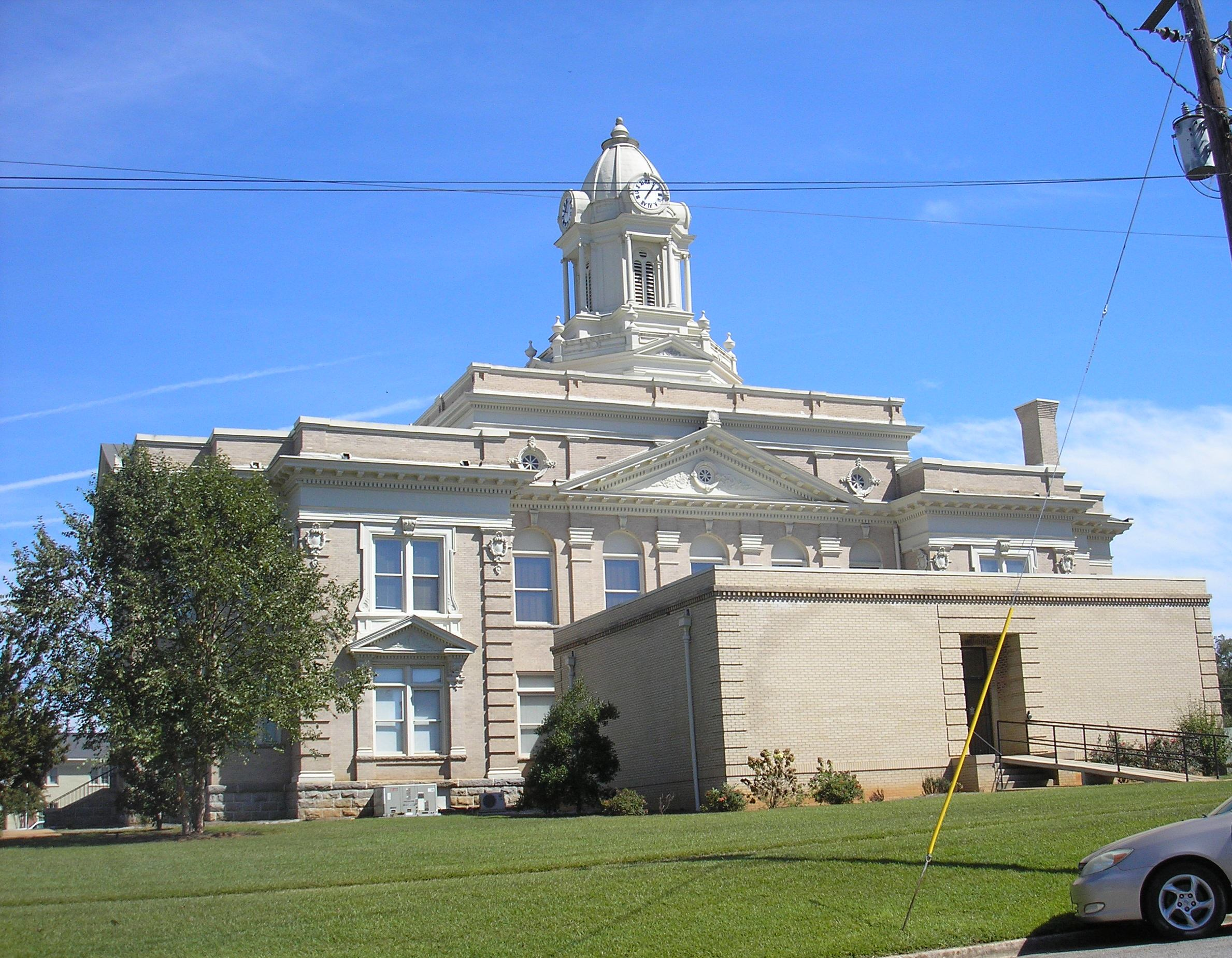 Jefferson County Courthouse